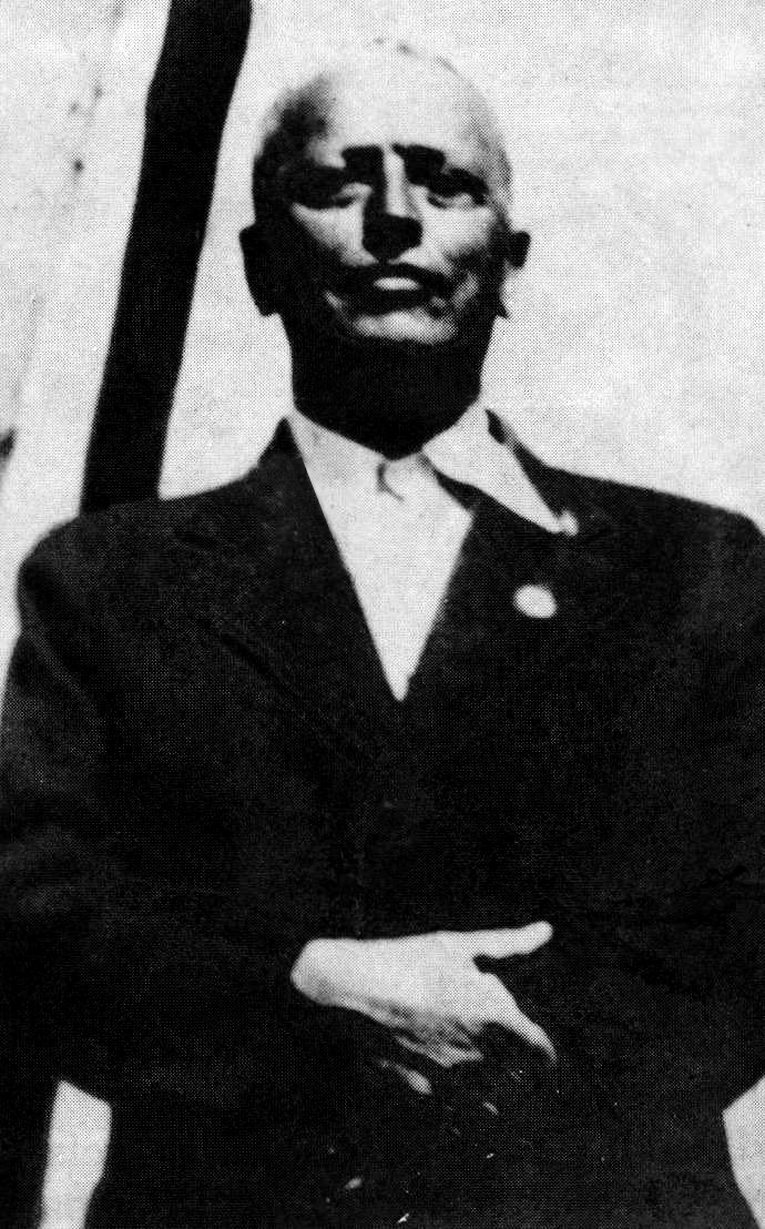 Franz Straub, SS-Sturmannführer (1889-1977).